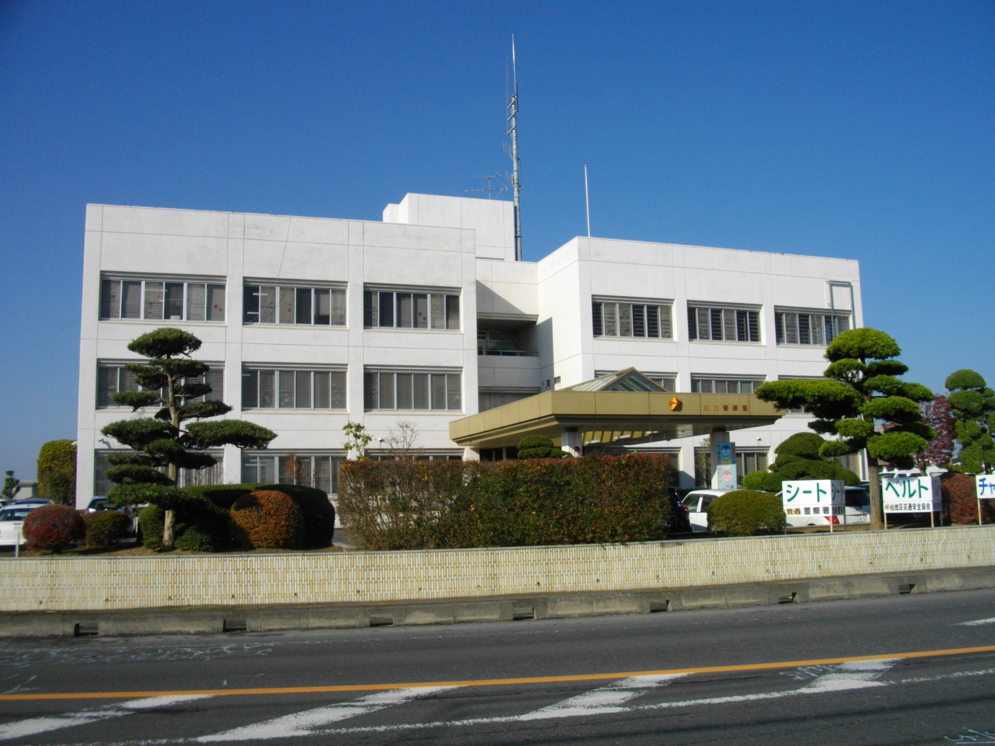 Chikusei Police Station